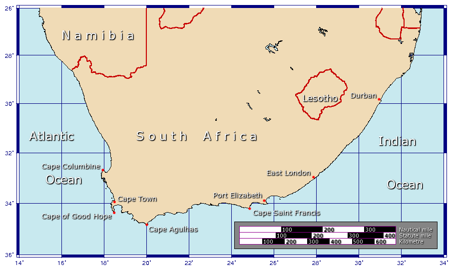 A map showing the location of the Cape of Good Hope and Cape Agulhas Generated using GMT.